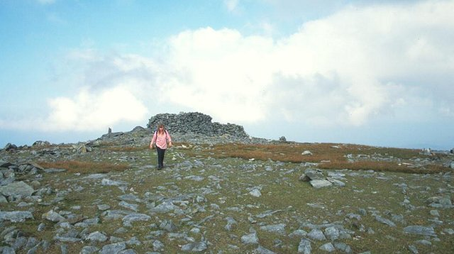 Slieve Snaght. The summit of Ireland's northernmost 2000' hill. (616m)